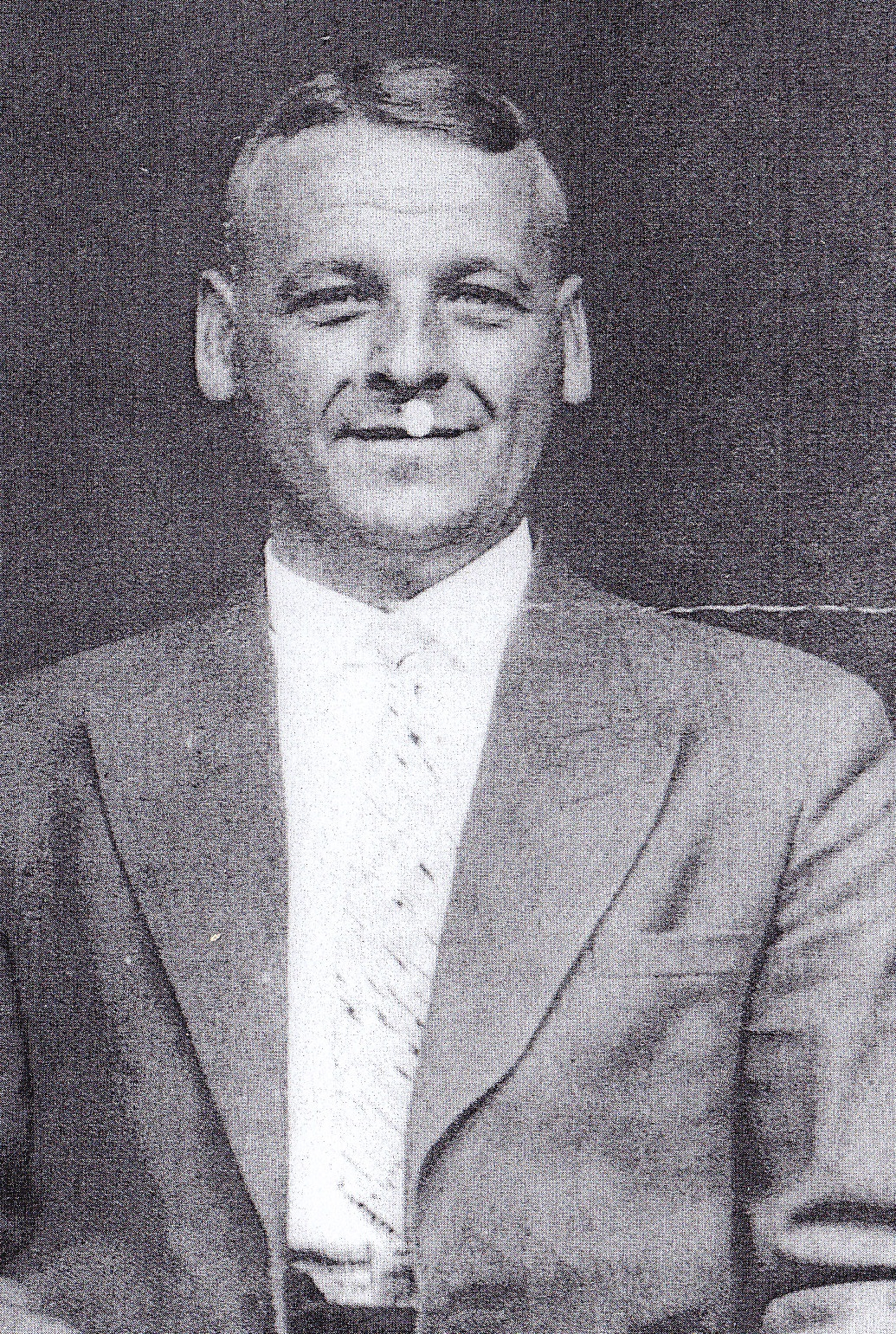 Emil Danzeisen, who organized a failed attempt on the SA-chief Ernst Röhm in 1932 on behalf of the chief-justice of the Party Court of the NSDAP.